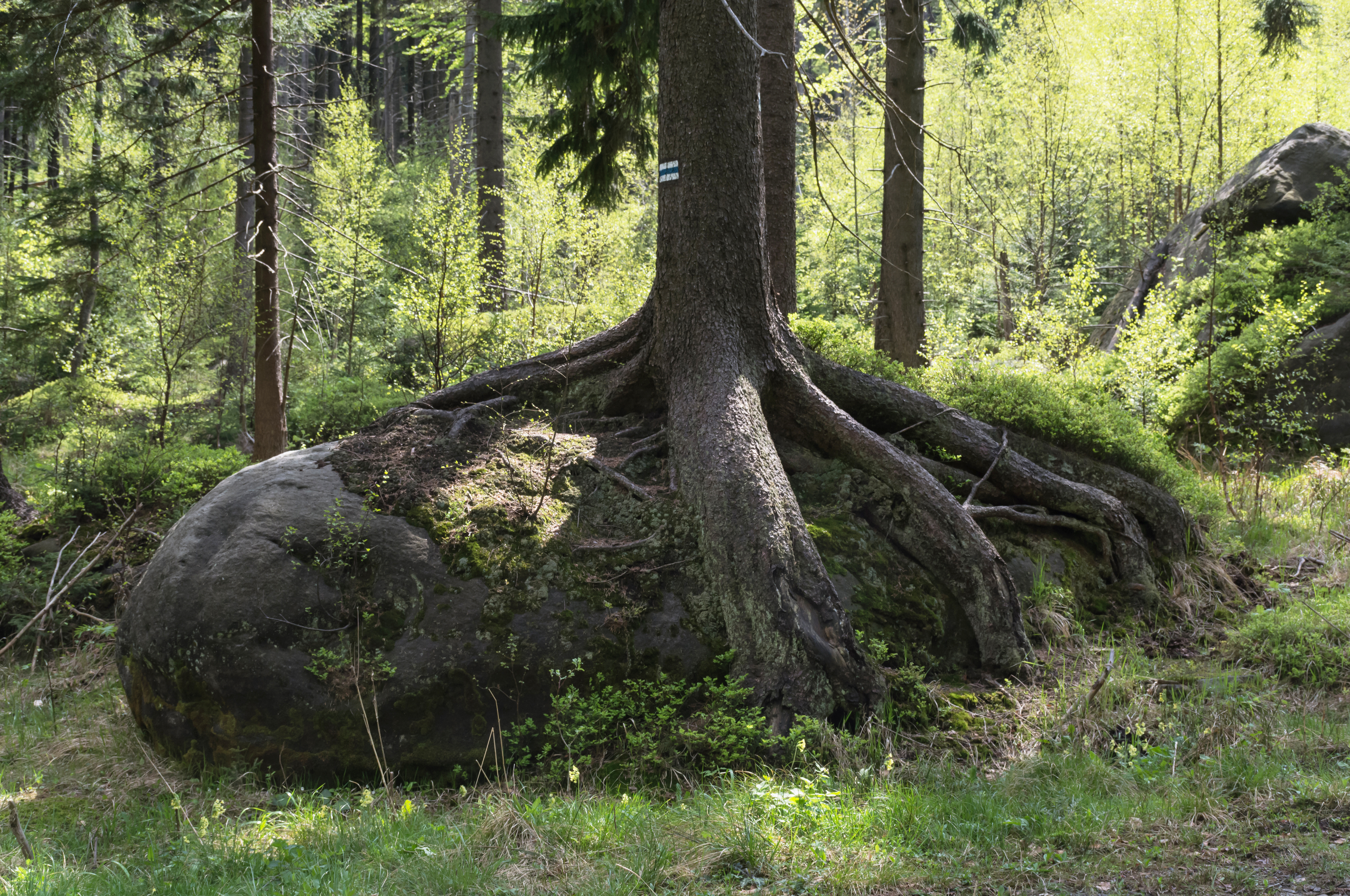 Boulder and spruce in the Góry Stołowe National Park This is a photography of Natura 2000 protected area with ID PLH020004